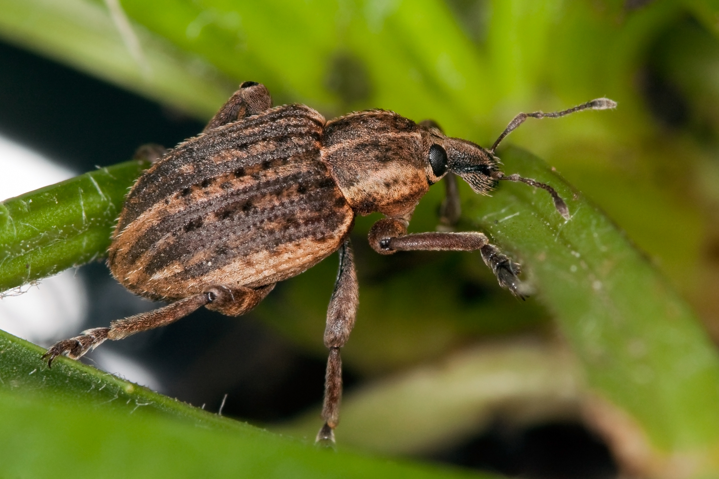 Clover Leaf Weevil (Hypera zoilus) at Shelby Park in Nashville, Tennessee (USA).